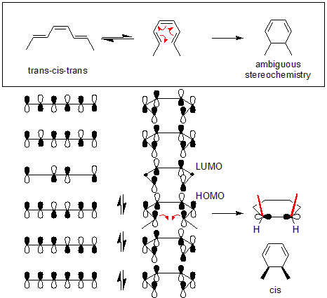 Disrotatory